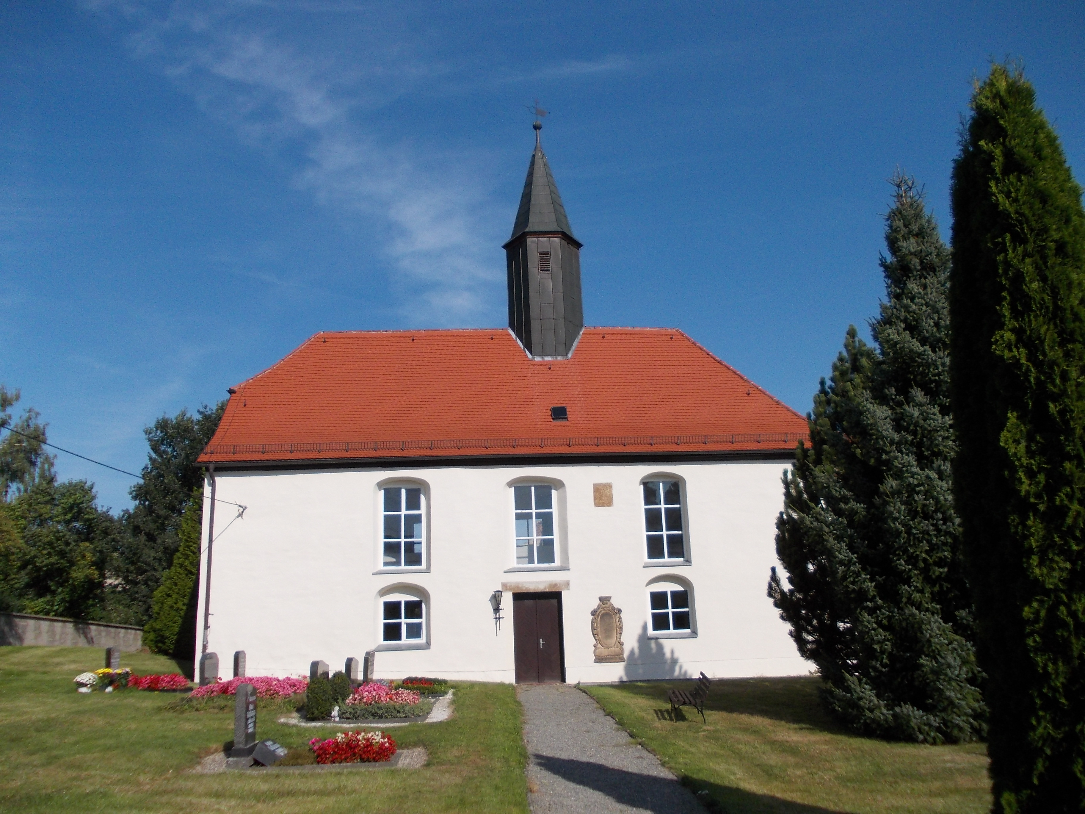 Reichstädt church (Greiz district, Thuringia)